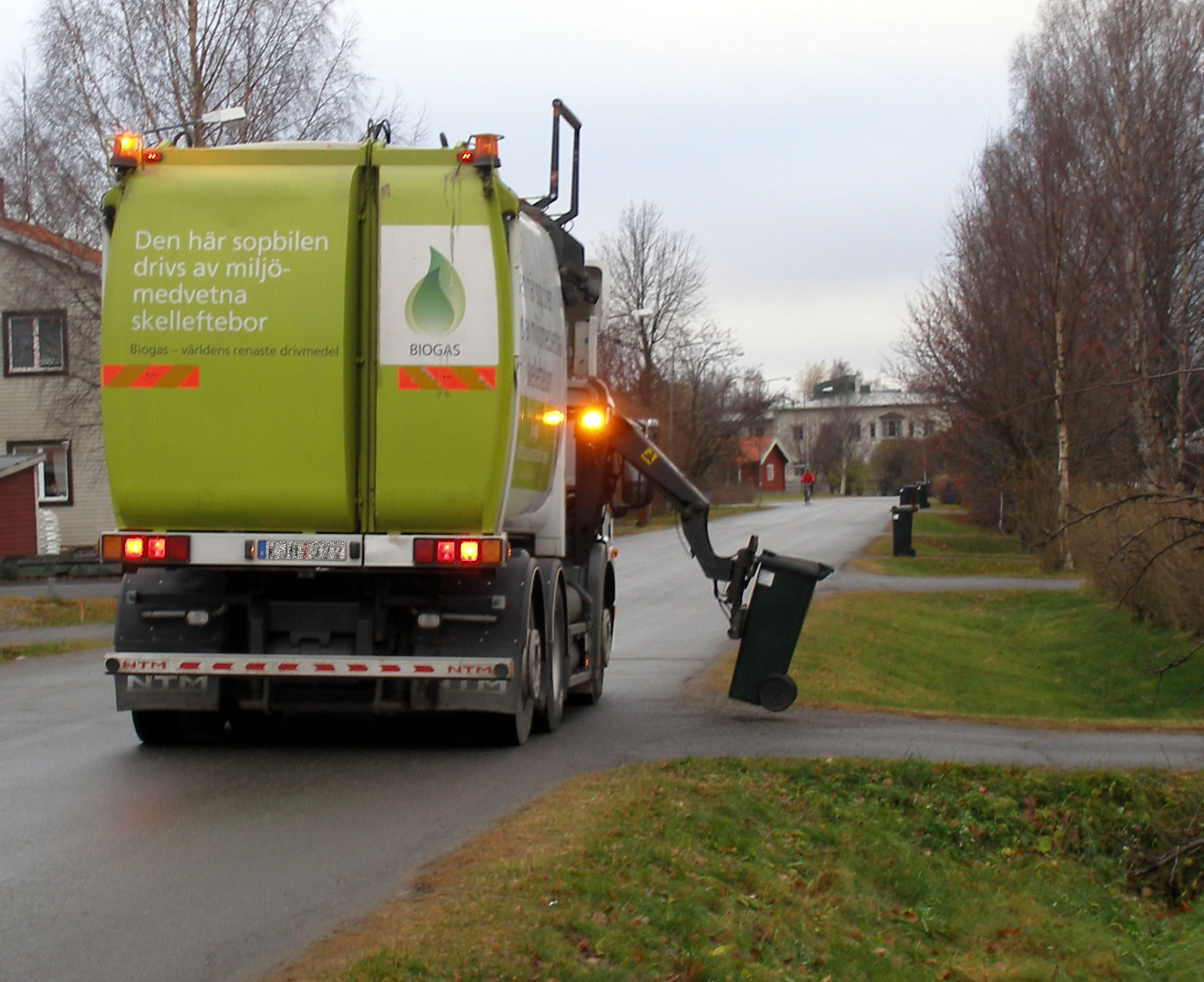 Waste collection vehicle with sideloader powered by biogas in Skellefteå, Sweden.